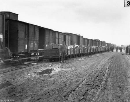 Western Front: Western Front (Belgium), Ypres Area Poperinghe. Unidentified soldiers stand at a railway yard where they have been transferring crates of stores from the heavy gauge railway cars on the left to the light railway trucks for transport to the front line. Note the extremely muddy ground.